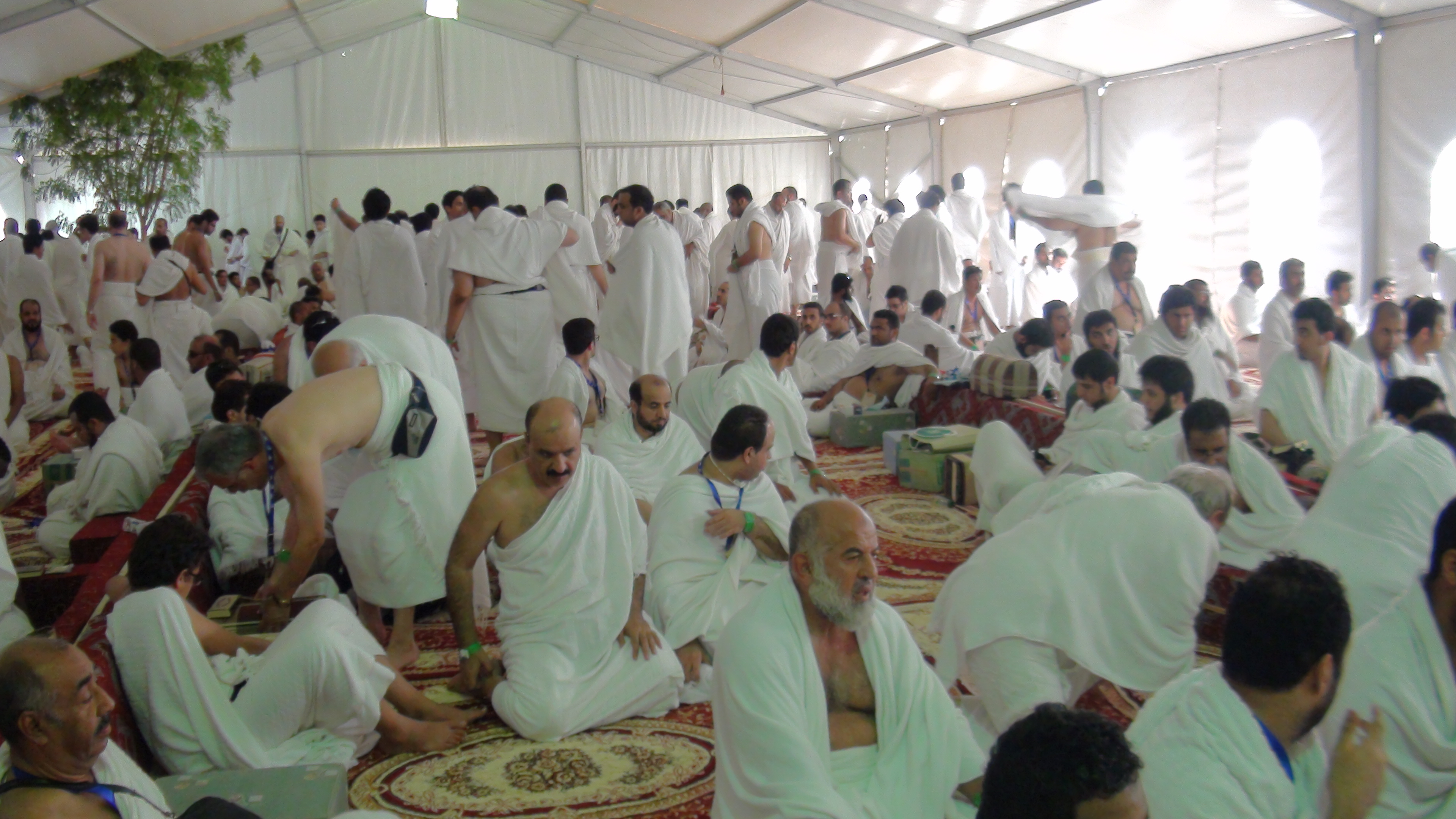 Arafat area, Saudi Arabia